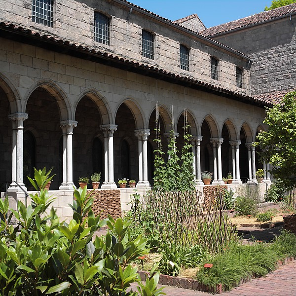 Bonnefont Clositers